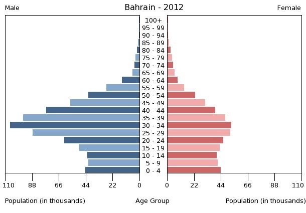 A population pyramid illustrates the age and sex structure of a country's population and may provide insights about political and social stability, as well as economic development. The population is distributed along the horizontal axis, with males shown on the left and females on the right. The male and female populations are broken down into 5-year age groups represented as horizontal bars along the vertical axis, with the youngest age groups at the bottom and the oldest at the top. The shape of the population pyramid gradually evolves over time based on fertility, mortality, and international migration trends This diagram shows the population pyramid of Bahrain, as of 2012.